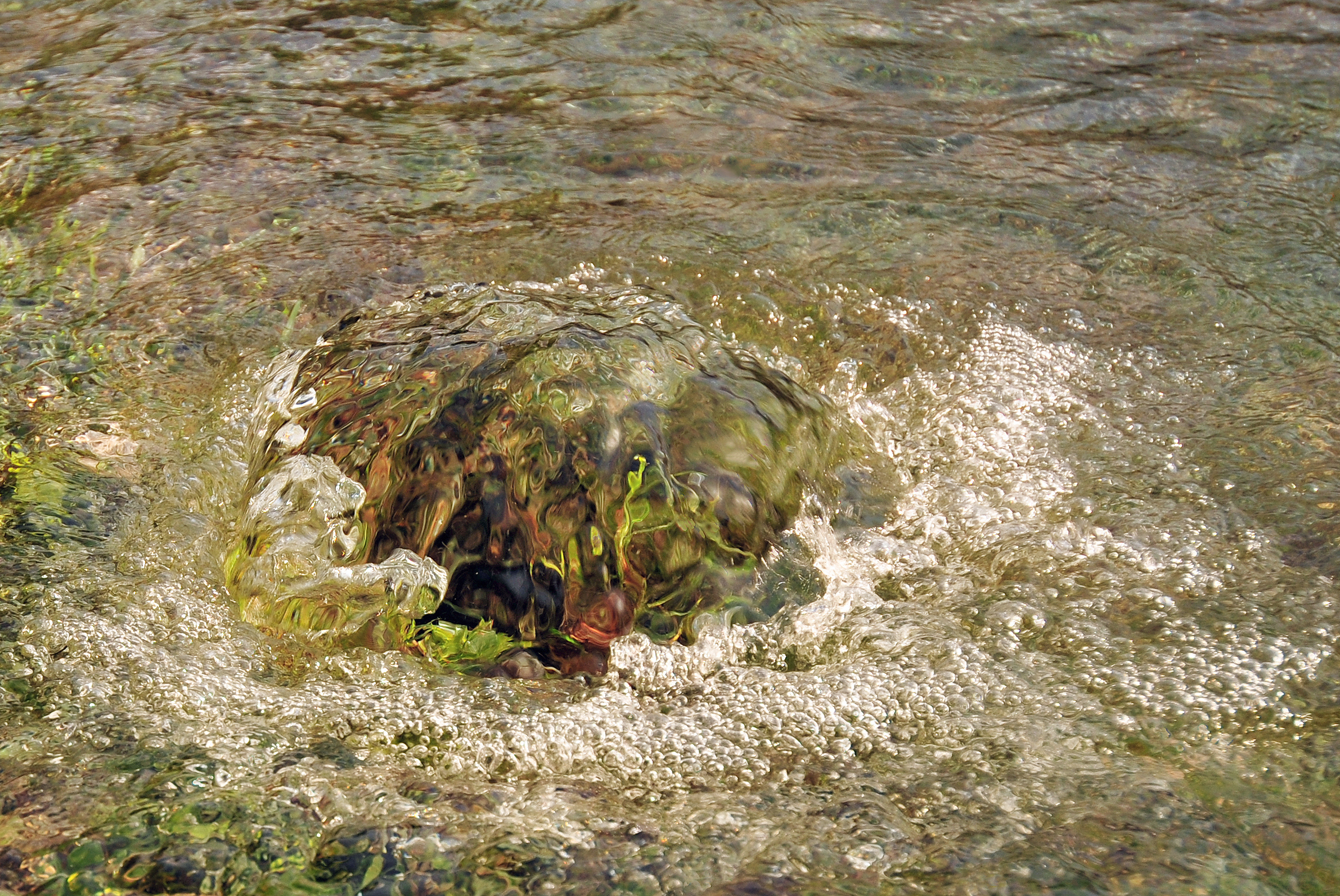 Flowing artesian well in the meadow near the "Laghi di Fusine-superiore", Valromana, Italia.